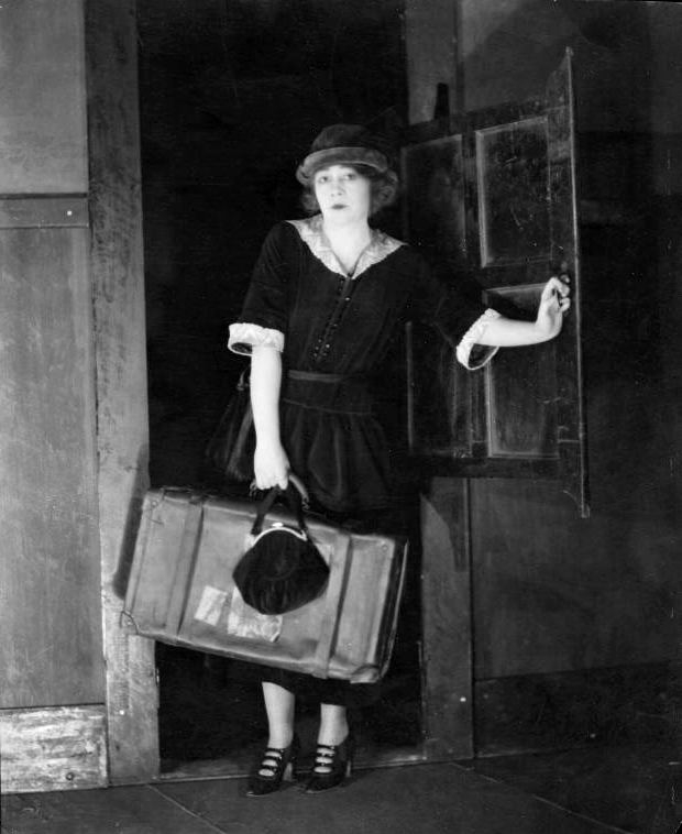 Photograph of Pauline Lord in the Broadway production of Anna Christie